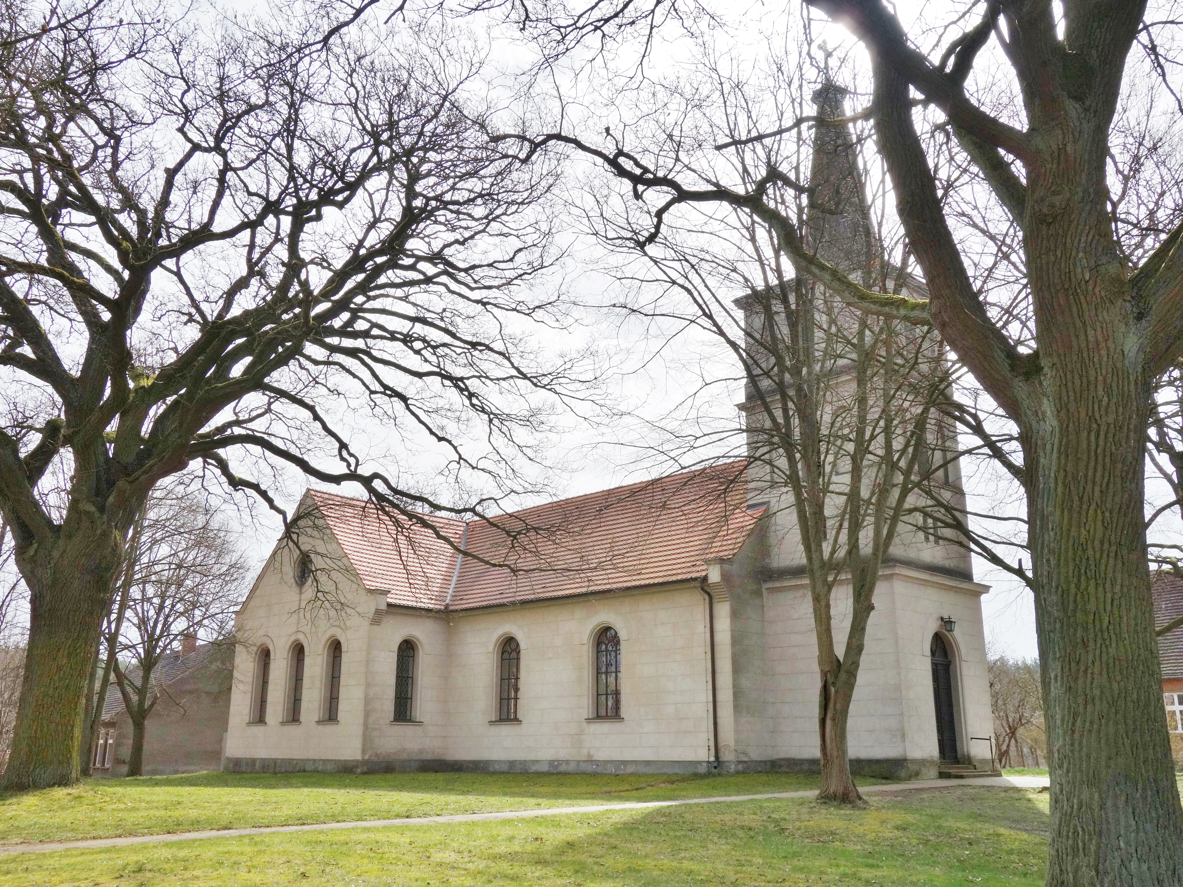 North-western view of church in Dossow, Wittstock municipality, Ostprignitz-Ruppin district, Brandenburg state, Germany